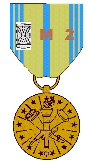 "M" Device for mobilization, and the "2" Numeral Device indicating second mobilizations